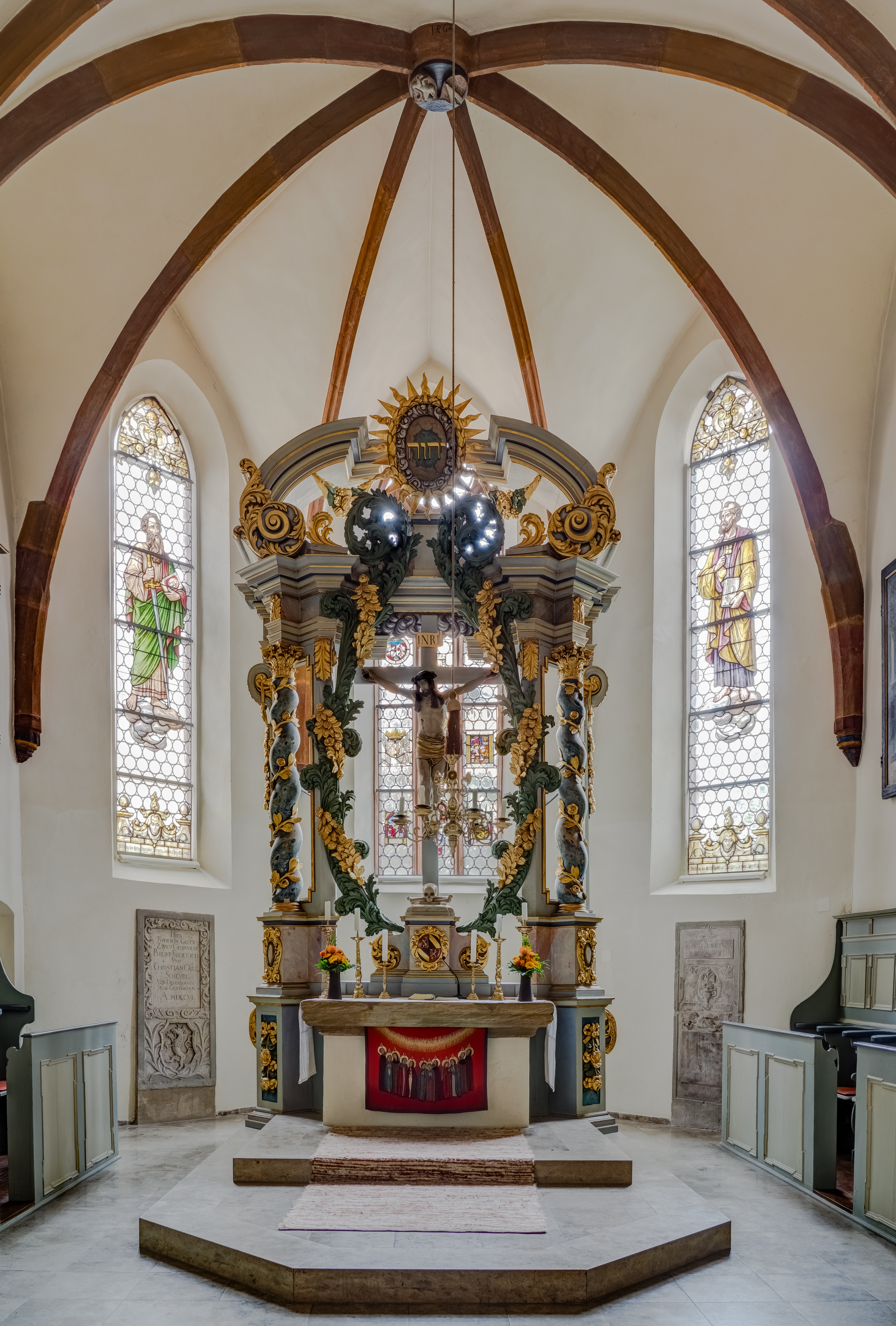 Altar in the evangelic church in Gräfenberg